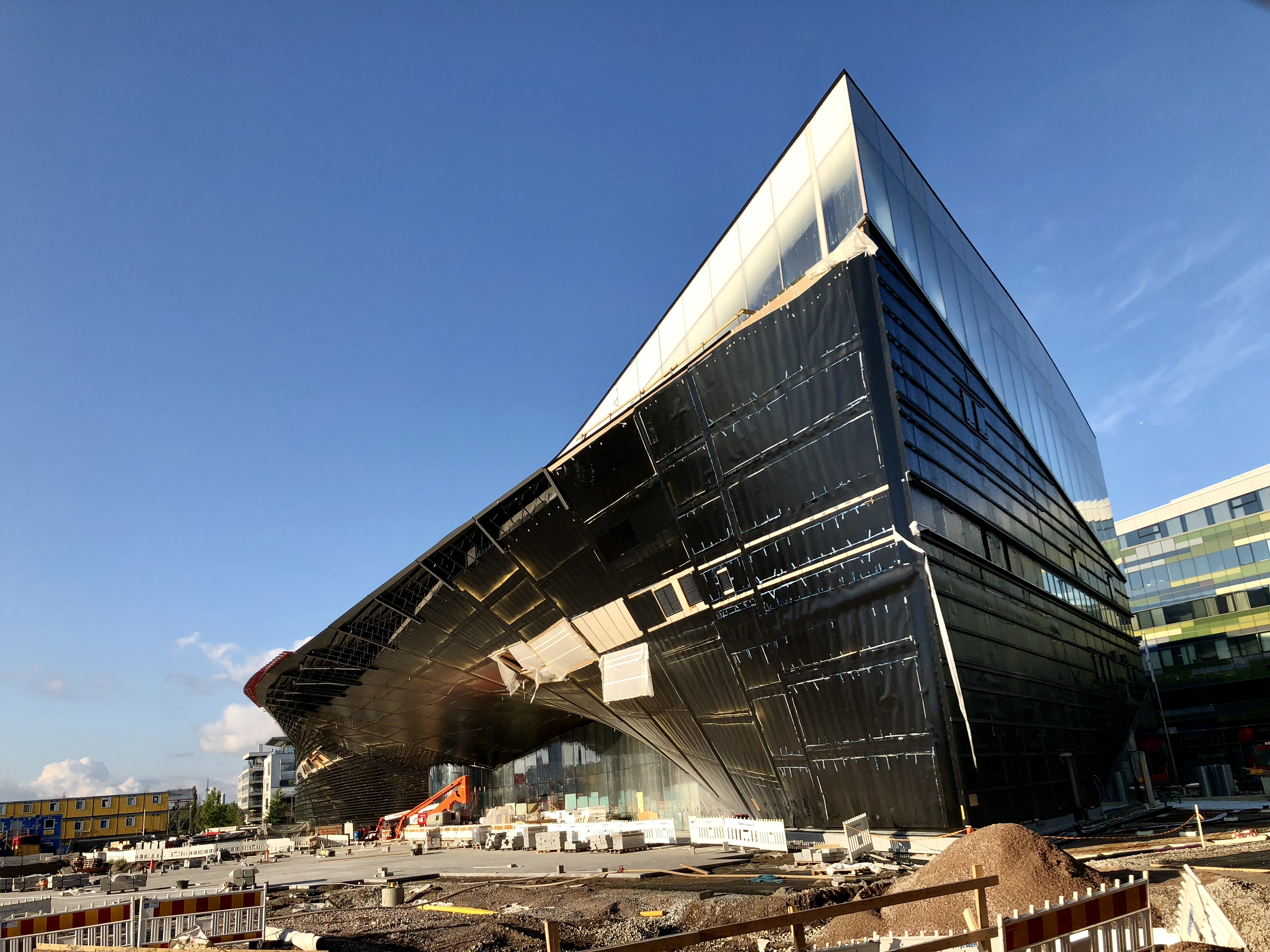 Helsinki Central Library Oodi under construction September 2018.